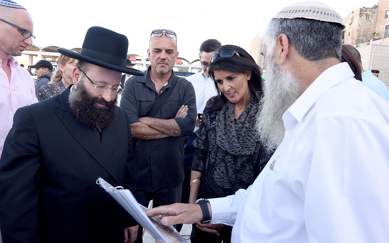 Ambassador Nikki Haley visit the old city of Jerusalem. June 2017 Ambassador Nikki Haley visit the old city of Jerusalem. June 2017